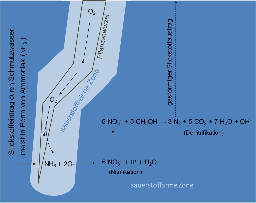 Nitrification and denitrification in constructed wetlands